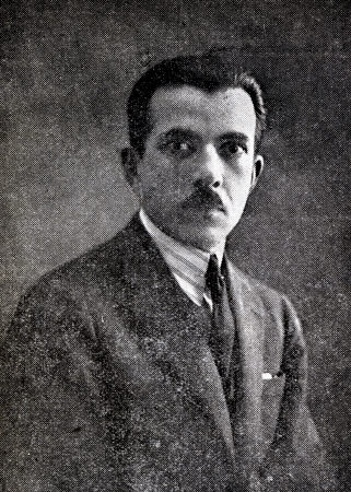 Grigorios Zevgolis (1886-1950): Greek sculptor